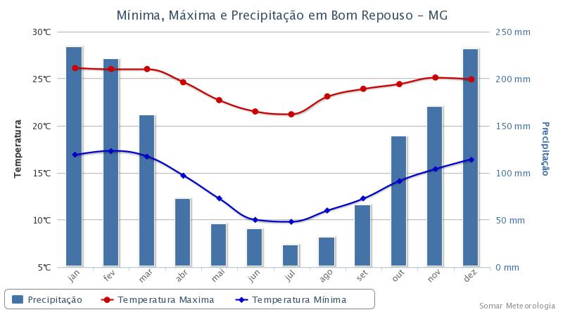 BOM REPOUSO CLIMATE